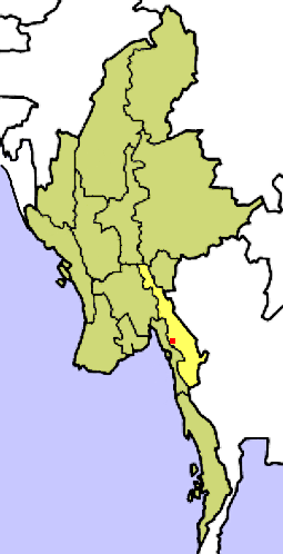 Location of Kayin State in Myanmar w/ capital.